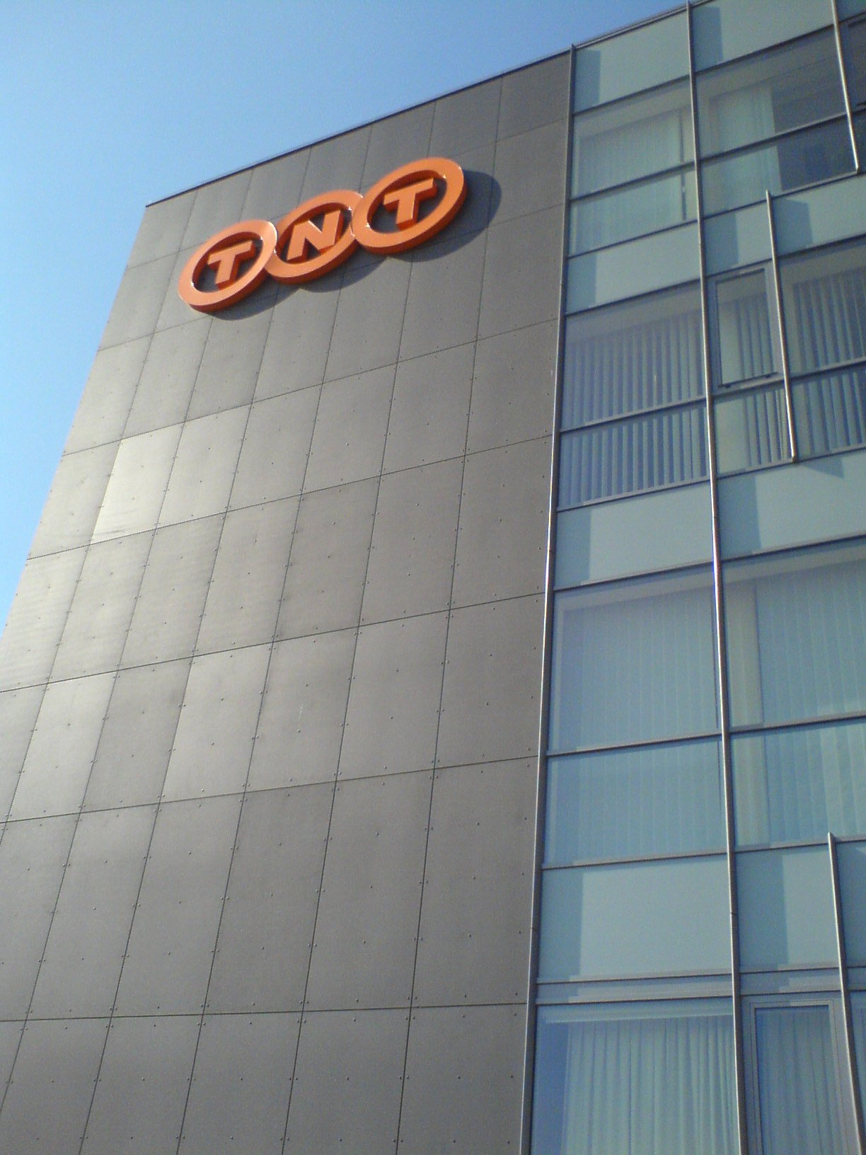 TNT Poland headquarters in Warsaw